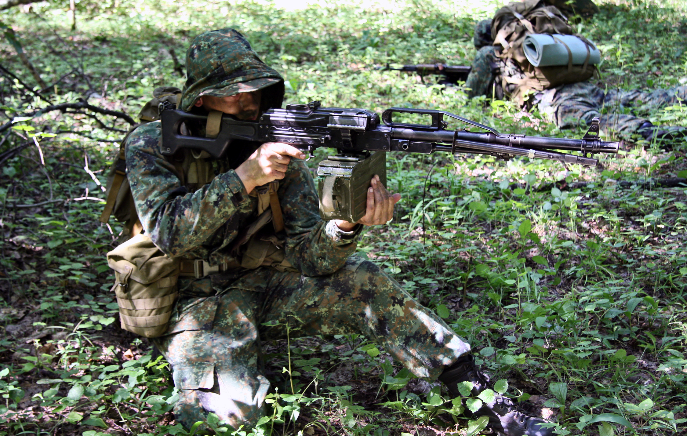 PKP Pecheneg of 45th Separate Guards Special Purpose Regiment